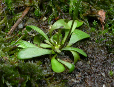 Habitus von Genlisea hispidula. Foto by Thomas Lendl 2005